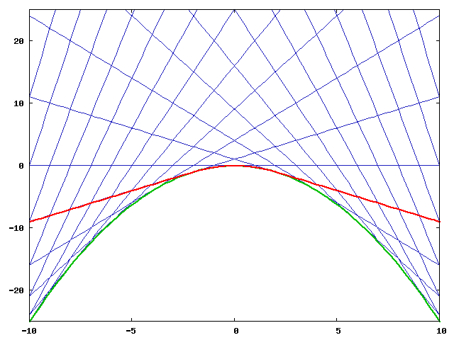 Shows the solutions to the equation Some of the particular solutions are in blue; the singular solution is in green; and a hybrid solution is in red. I used this image on Wikipedia's ODE page to illustrate the different types of solution. 29 Oct 2005